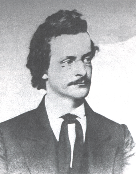 William Stimpson (1832-1872), US Zoologist.